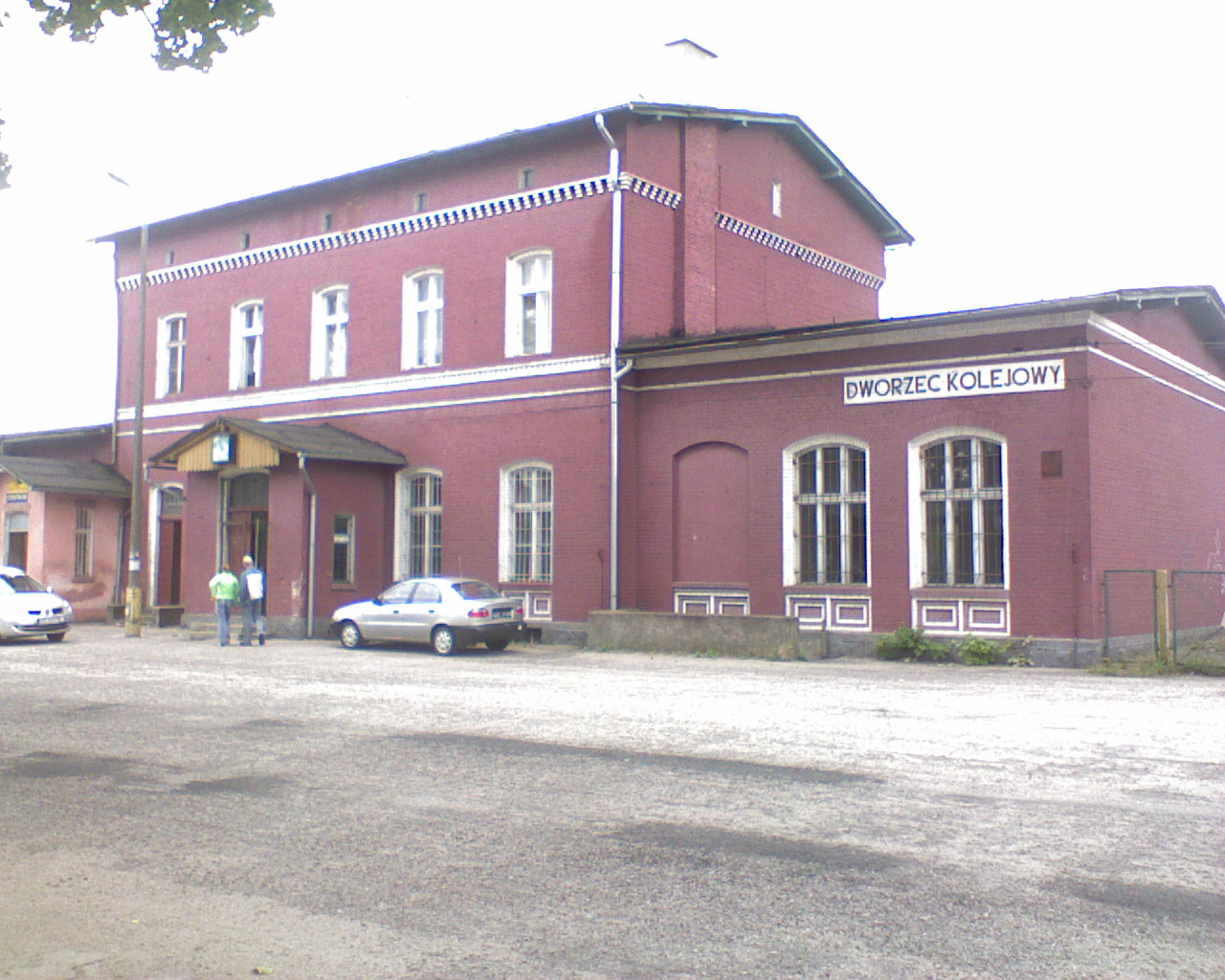 Korzybie - train station